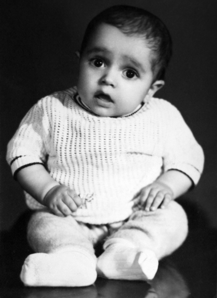 Mahdi Bemani's early childhood